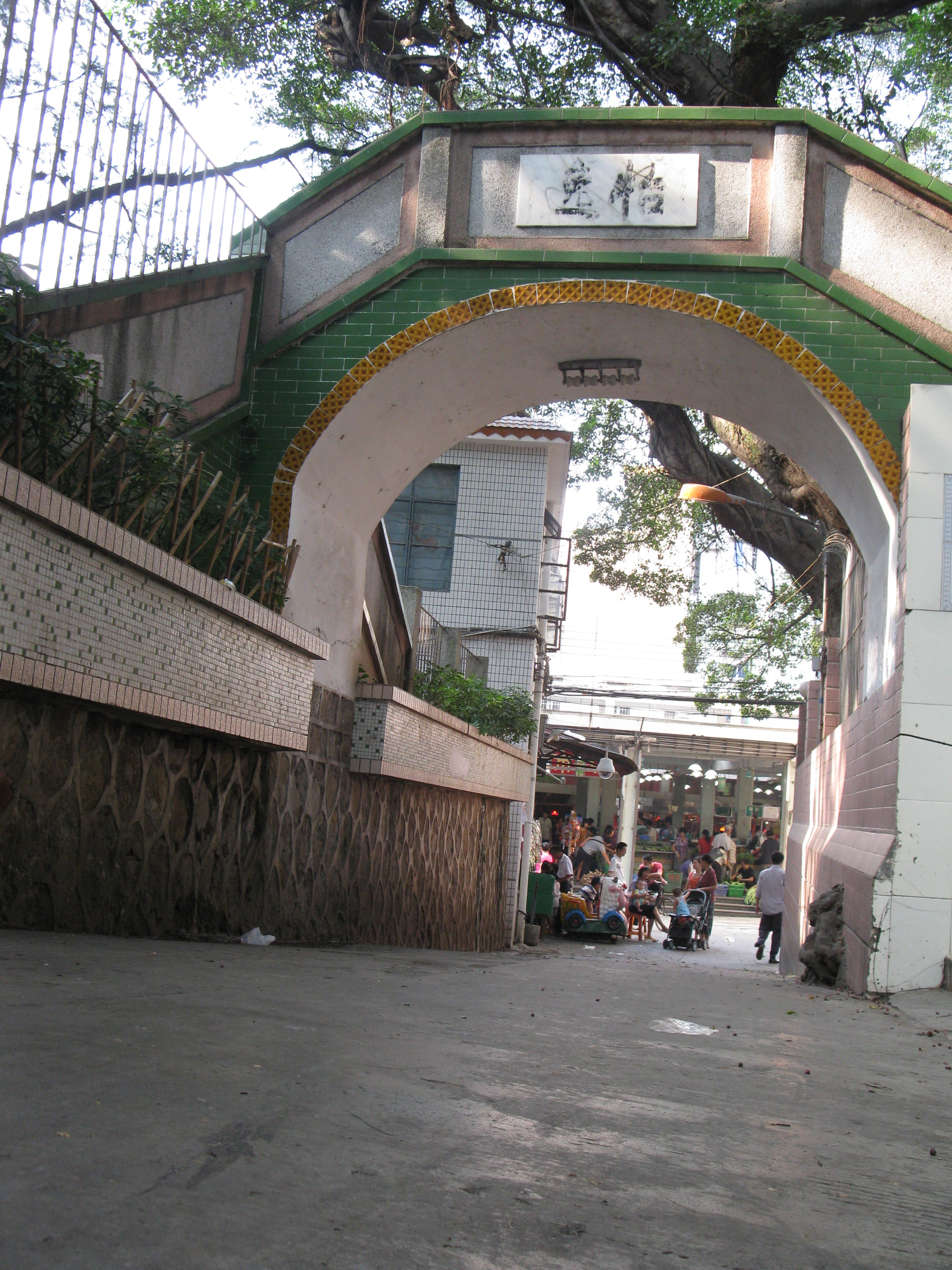 Road to Shan Chien Market, Shipai Village, Guangzhou, China